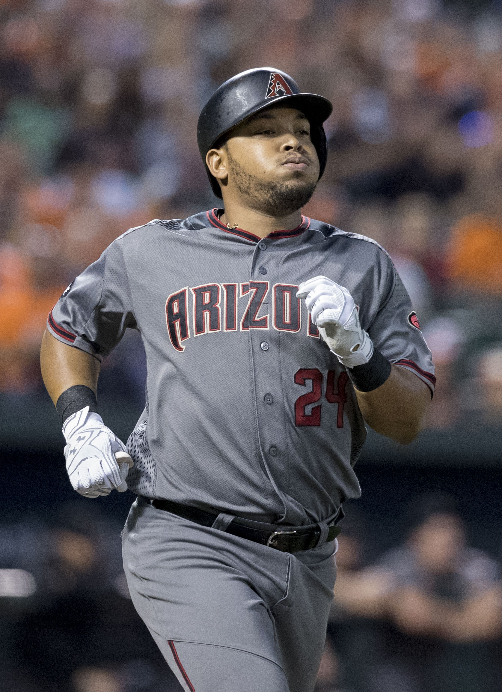 Diamondbacks at Orioles 9/24/16